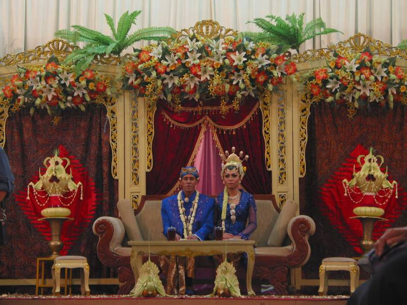 Javanese marriage ceremony, Surakarta (Solo)